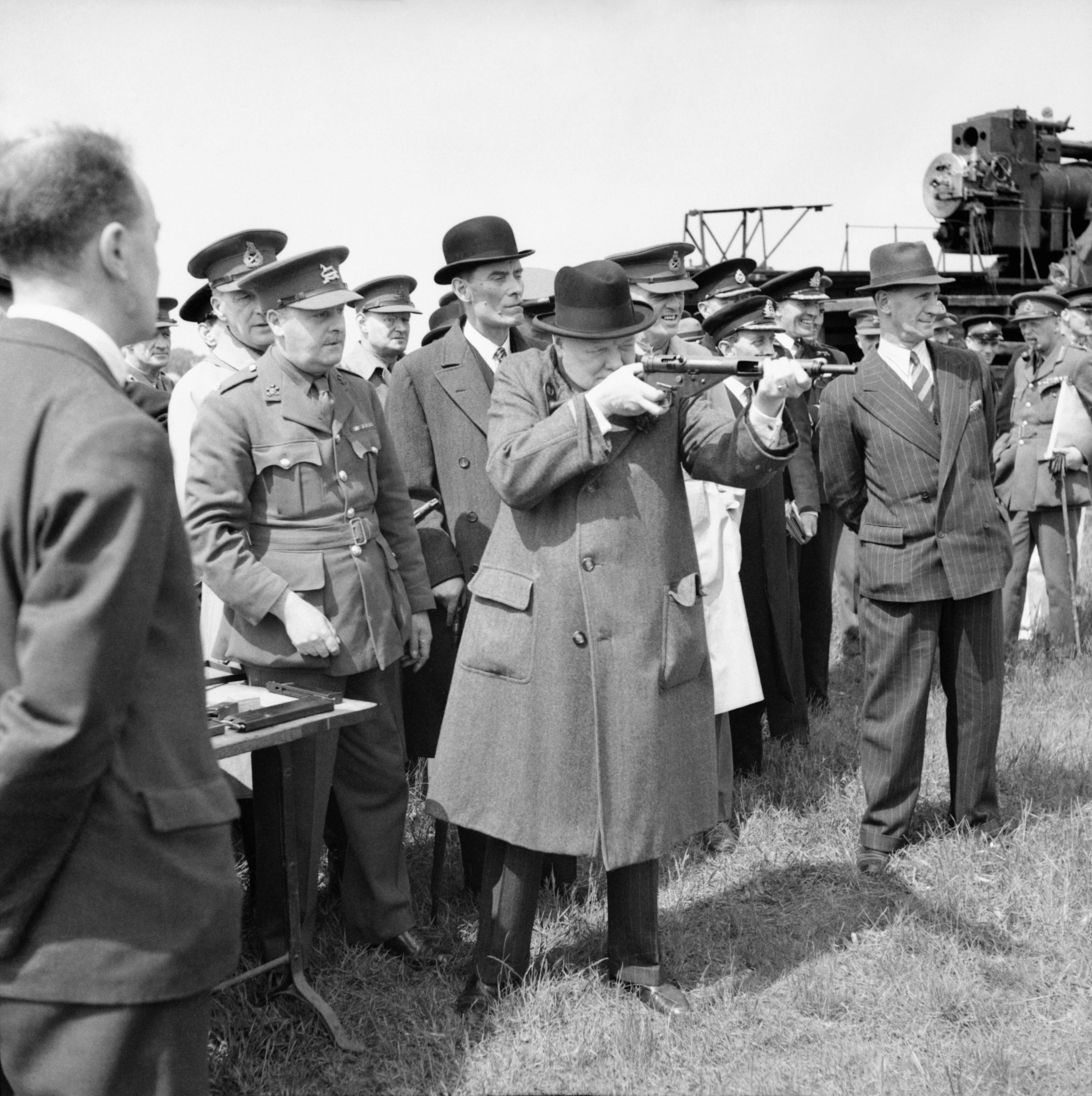 Winston Churchill As Prime Minister 1940-45 Winston Churchill takes aim with a Sten gun during a visit to the Royal Artillery experimental station at Shoeburyness in Essex, 13 June 1941.